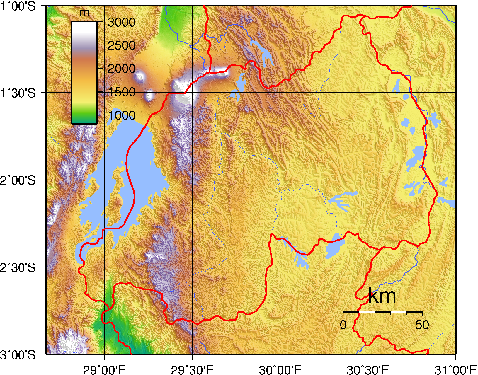 Topographic map of Rwanda. Created with GMT from publicly released SRTM data.